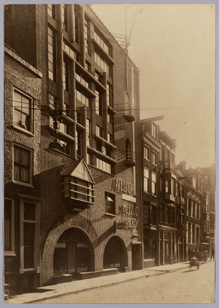 Atelier Liberty, Kerkstraat, Amsterdam, 1923. Architect: H.A. van Anrooy. Fotograaf: onbekend. Collectie NAi / TENT_o2 URL van deze afbeelding: Meer foto's uit deze collectie kunt u bekijken in de Collectiedatabase van het NAi. Niet van alle gebouwen en interieurs zijn alle gegevens bekend. Heeft u meer informatie of weet u het adres van een gebouw? Laat dan een reactie achter (als u ingelogd bent bij Flickr) of stuur een mailtje naar: Al deze foto's zijn gemaakt in de eerste helft van de twintigste eeuw. Wij zijn benieuwd hoe deze gebouwen er vandaag de dag uitzien. Heeft u recente foto's van deze gebouwen of locaties, voeg ze dan toe als commentaar. U kunt een eigen Flickr-foto toevoegen door de URL ervan tussen vierkante haken in het commentaarveld te plakken. Als uw foto's een Creative Commons licentie hebben, nemen we ze bovendien graag op in de NAi Collectiedatabase. Liberty Studio, Kerkstraat, Amsterdam, 1923. Architect: H.A. van Anrooy. Photographer: unknown. NAI Collection / TENT_o2 Persistent URL: For more photographs from this collection, please visit the NAI Collection Database You can help us gain more knowledge on the content of our collection by adding a comment with information. If you do not wish to log in, you can write an e-mail to: All these pictures are taken in the first half of the twentieth century. We are curious to learn how these buildings look like today. If you have recently taken photographs of these buildings or locations, please add them to your comment. If you'd like to include a Flickr photo, simply copy and paste its URL between square brackets in the commentary-field. Photos with a Creative Commons licence may be used to illustrate the NAi Collection Database.